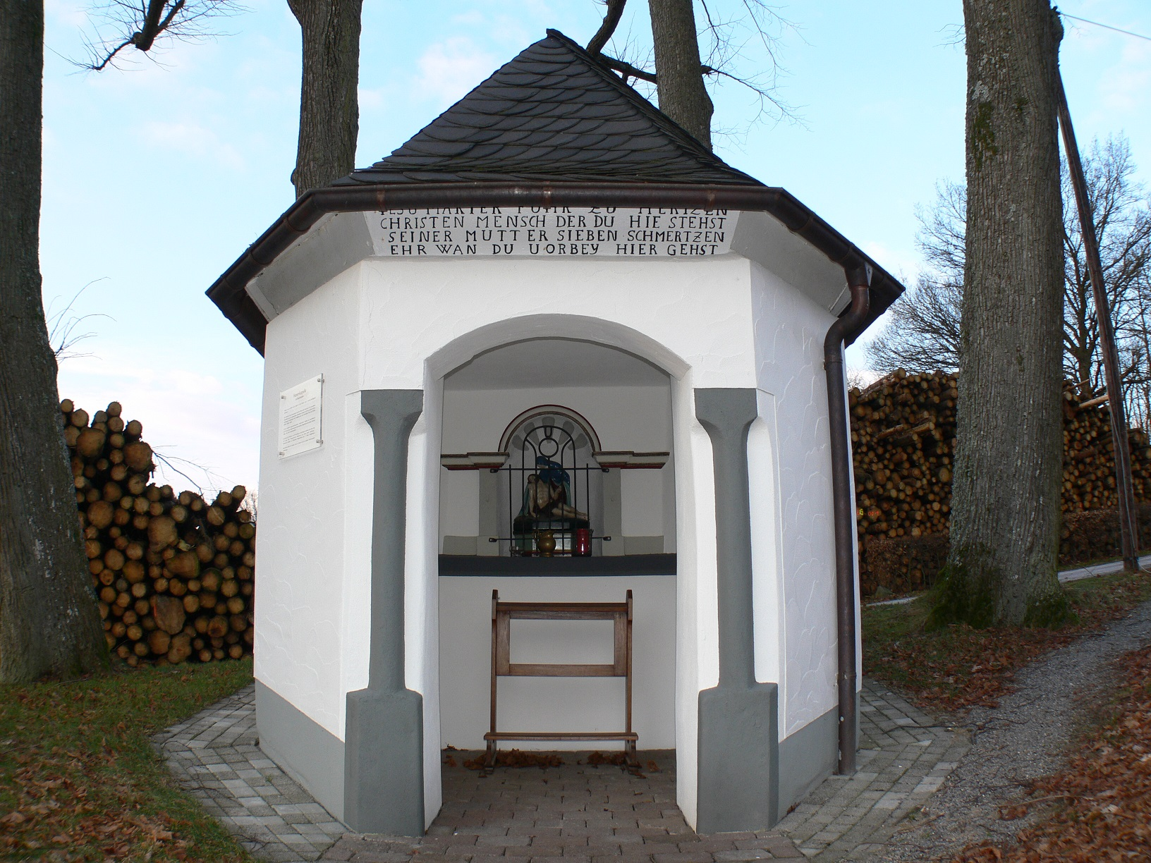 Bad Fredeburg chapel in memory of the victims of the persecution of alleged witches